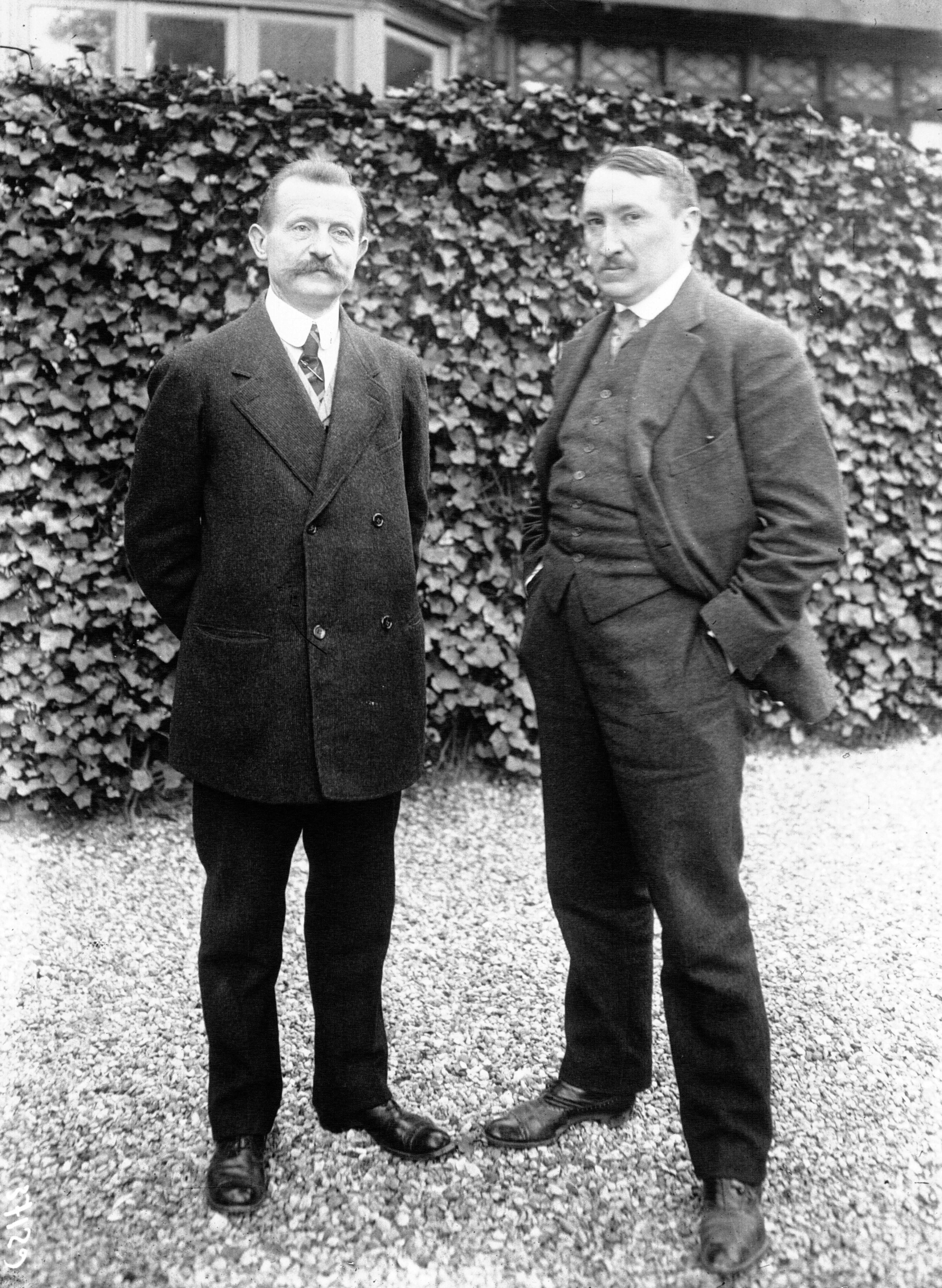 French industrialist Théodore Vienne (left) and French sculptor Paul (doubtful. Maybe Charles) Moreau-Vauthier (right).